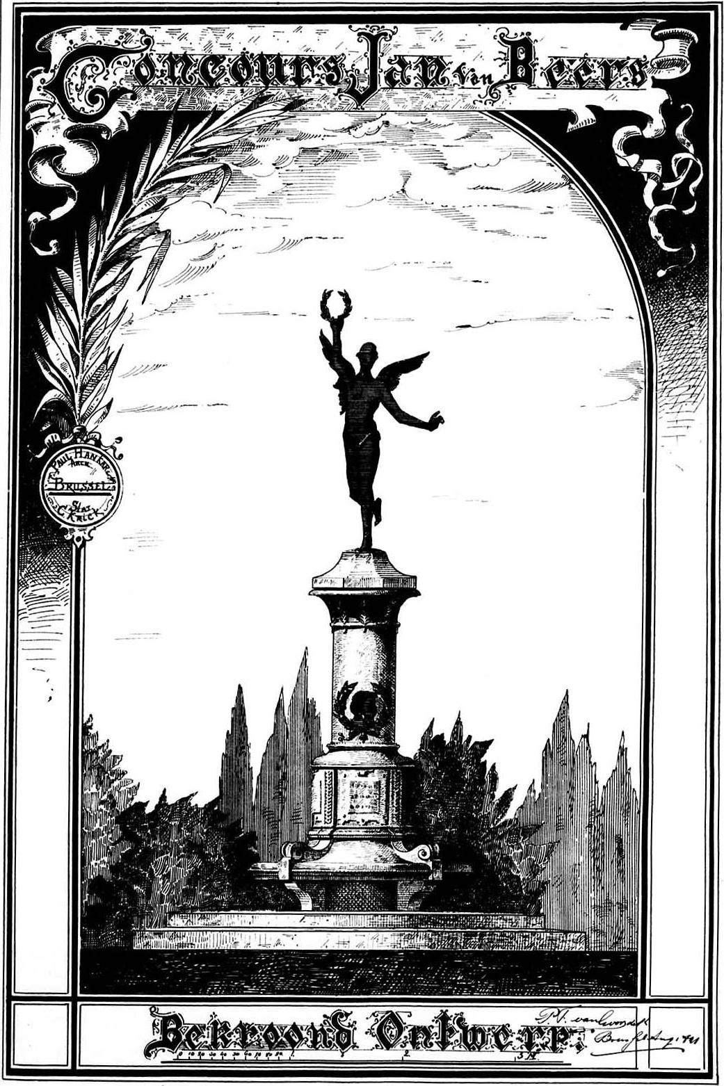 Jan van Beers monument, Antwerpen.